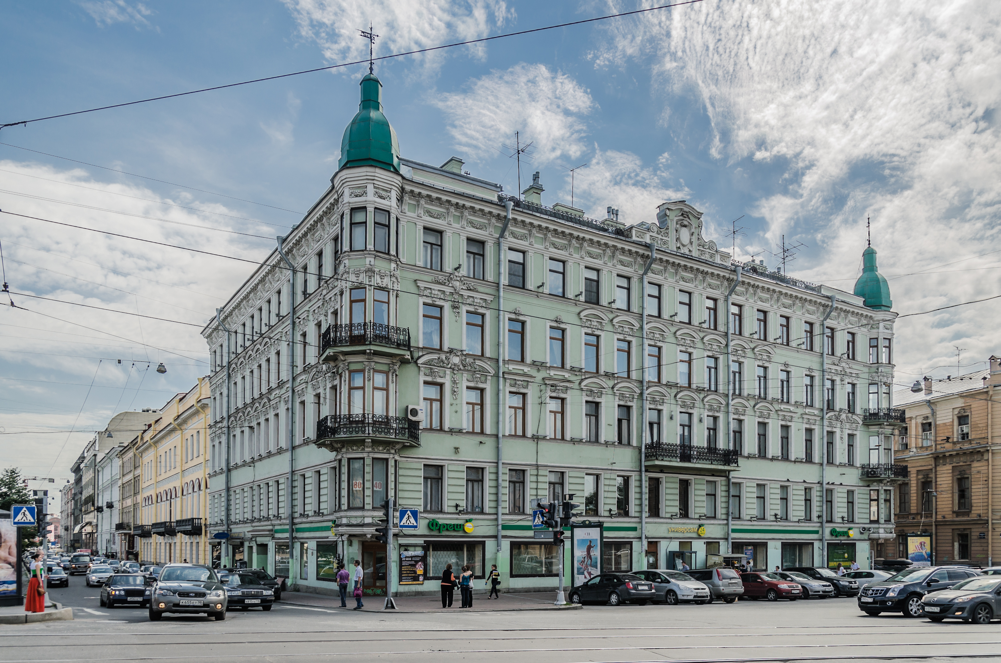 Fokin's rent house in Saint Petersburg